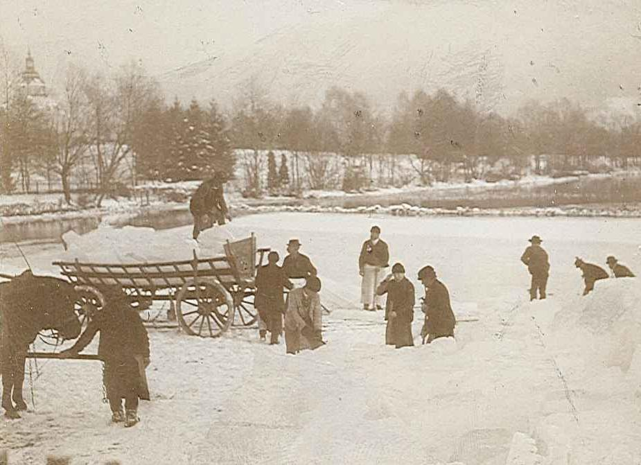 Breaking ice on a lake in Austria, 1899